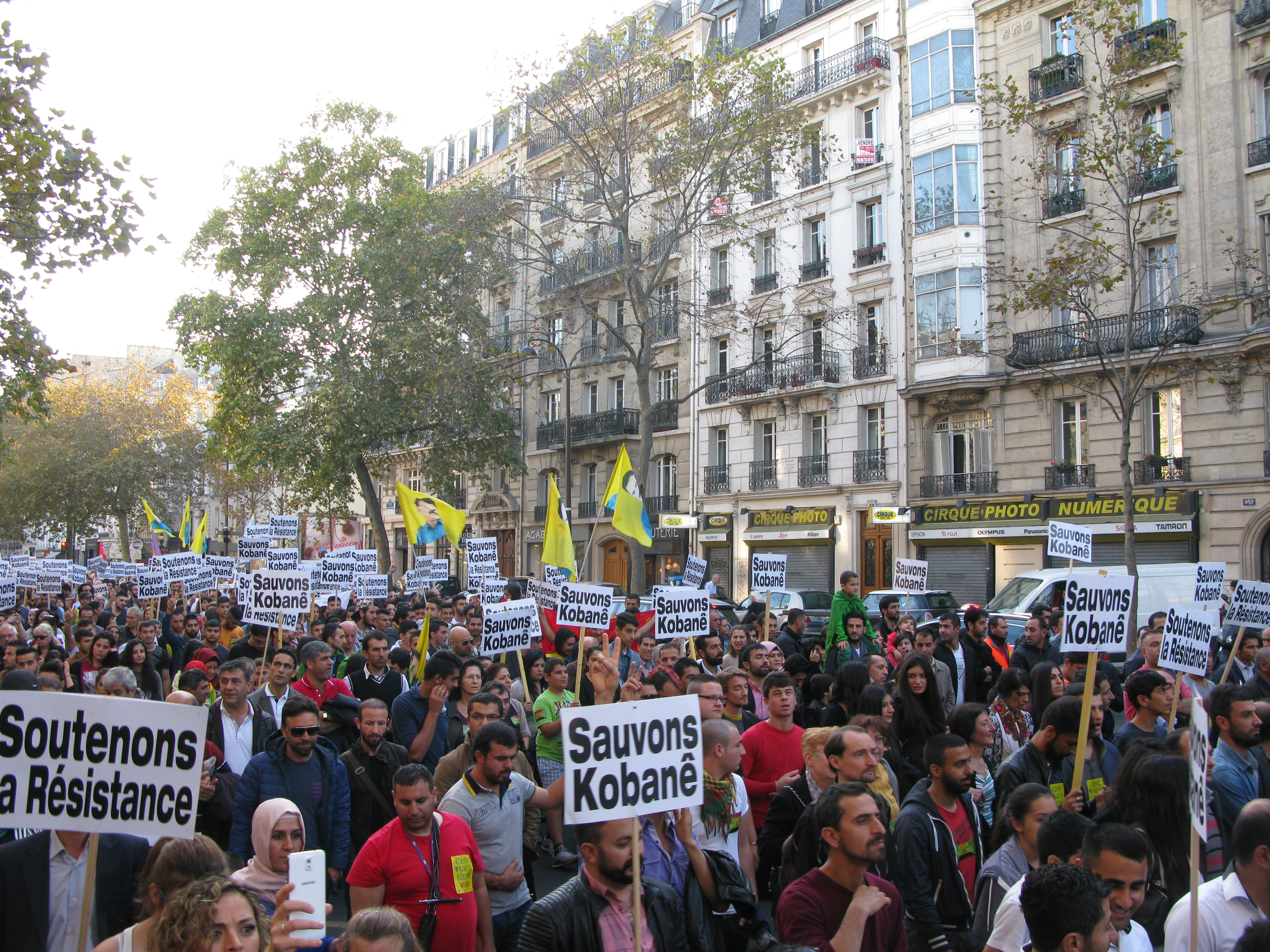 Demonstration at the World Day against Daesh, for Kobanê, for Humanity, conducted by the Kurdish democratic council of France and other organizations, 1 November 2014, Beaumarchais boulevard in Paris.